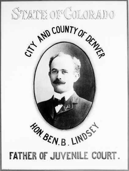 Colorado State Archives